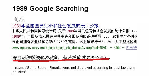 Google displayed the following message in the result page: 据当地法律法规和政策，部分搜索结果未予显示